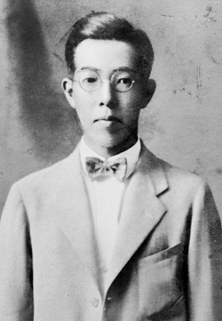 Jirō Horikoshi was a student of the Faculty of Engineering, Tokyo Imperial University.